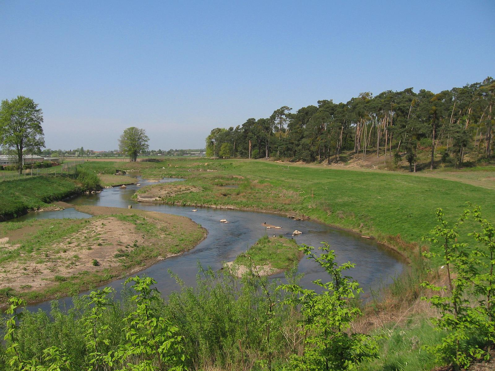 View on the river Weschnitz near Lorsch in south hesse/ Germany. The picture shows a renaturation part of the river near the watttenheimer bridge